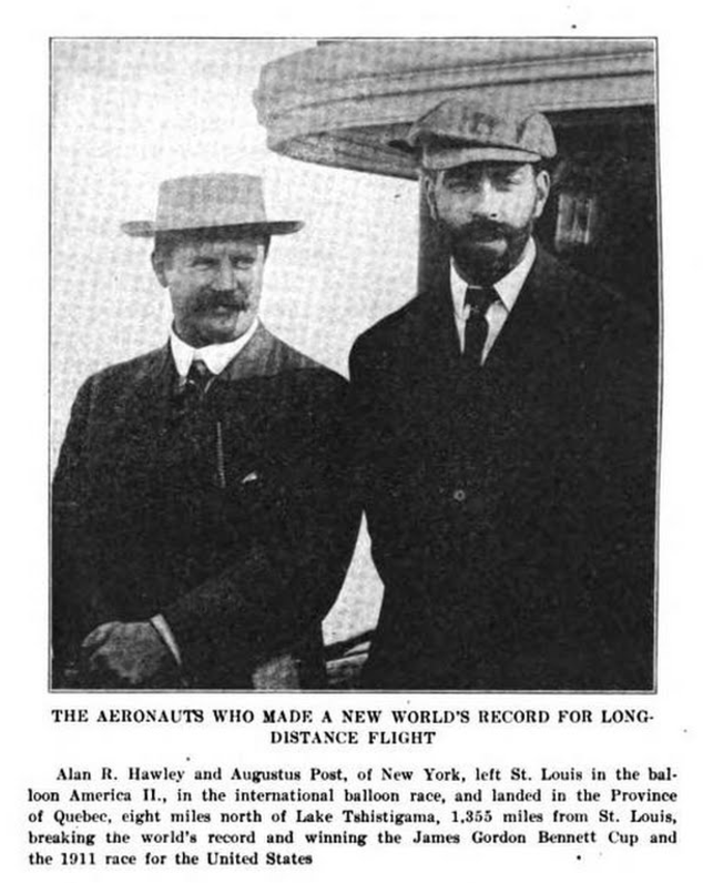 Balloonists Alan Hawley and Augustus Post, recipients of the 1910 Gordon Bennett Cup for record setting flight of 1,173 miles in 44 hours and 25 minutes, returning to New York after being lost in the Canadian wilderness for ten days.